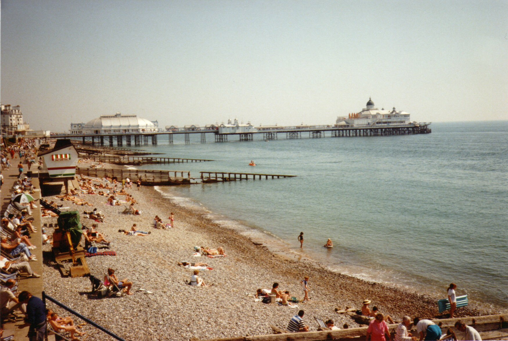 Eastbourne pier seen from beach